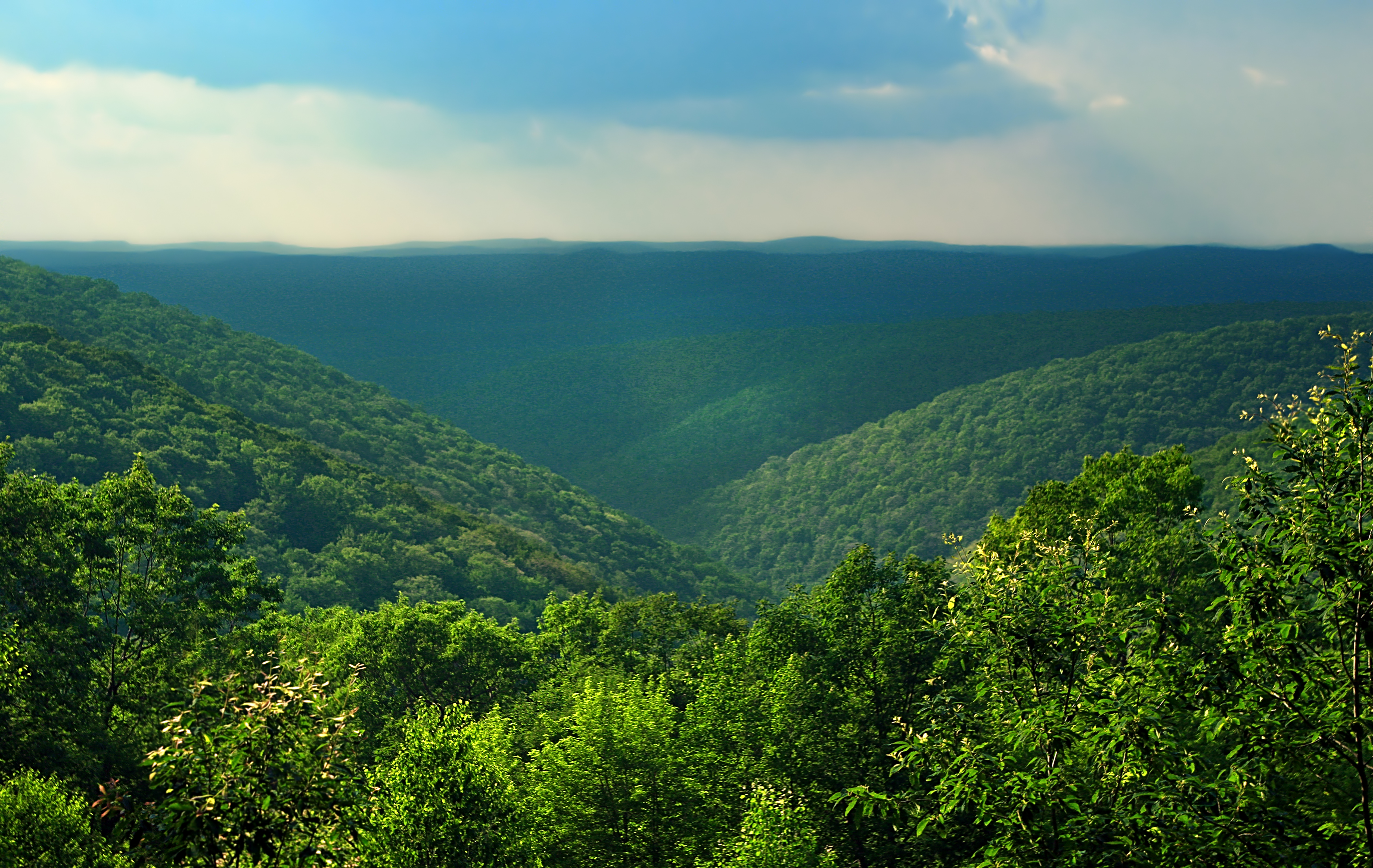 Flickr description reads "Whitehead Vista, located on the gravel-surfaced Ridge Road, looks west into the Hunts Run, Russell Hollow Run, and Driftwood Branch Sinnemahoning Creek drainage areas. The streams have deeply dissected the Allegheny Plateau in this region." In Lumber Township, Cameron County, Pennsylvania